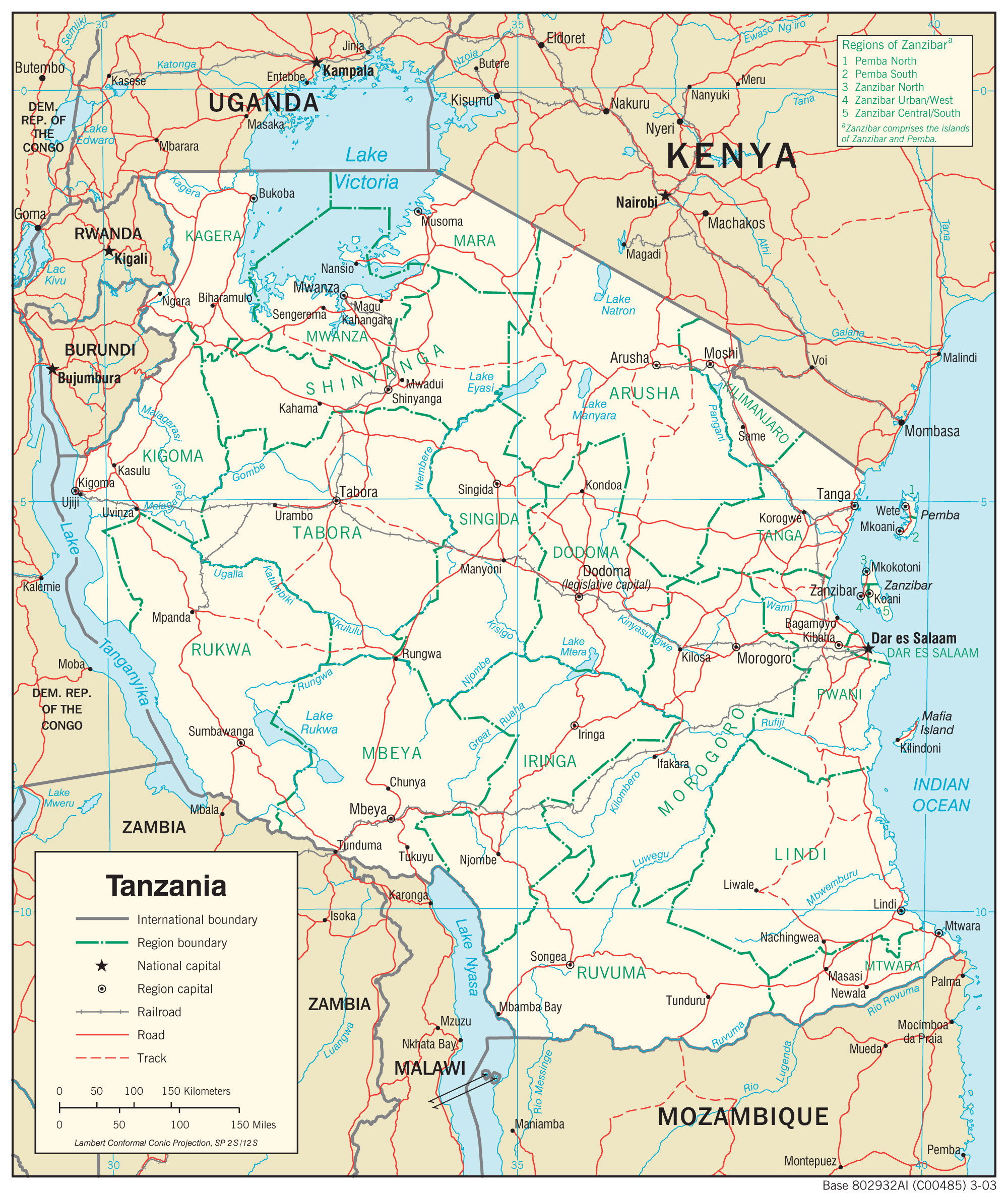 Transport system in Tanzania, 2003.